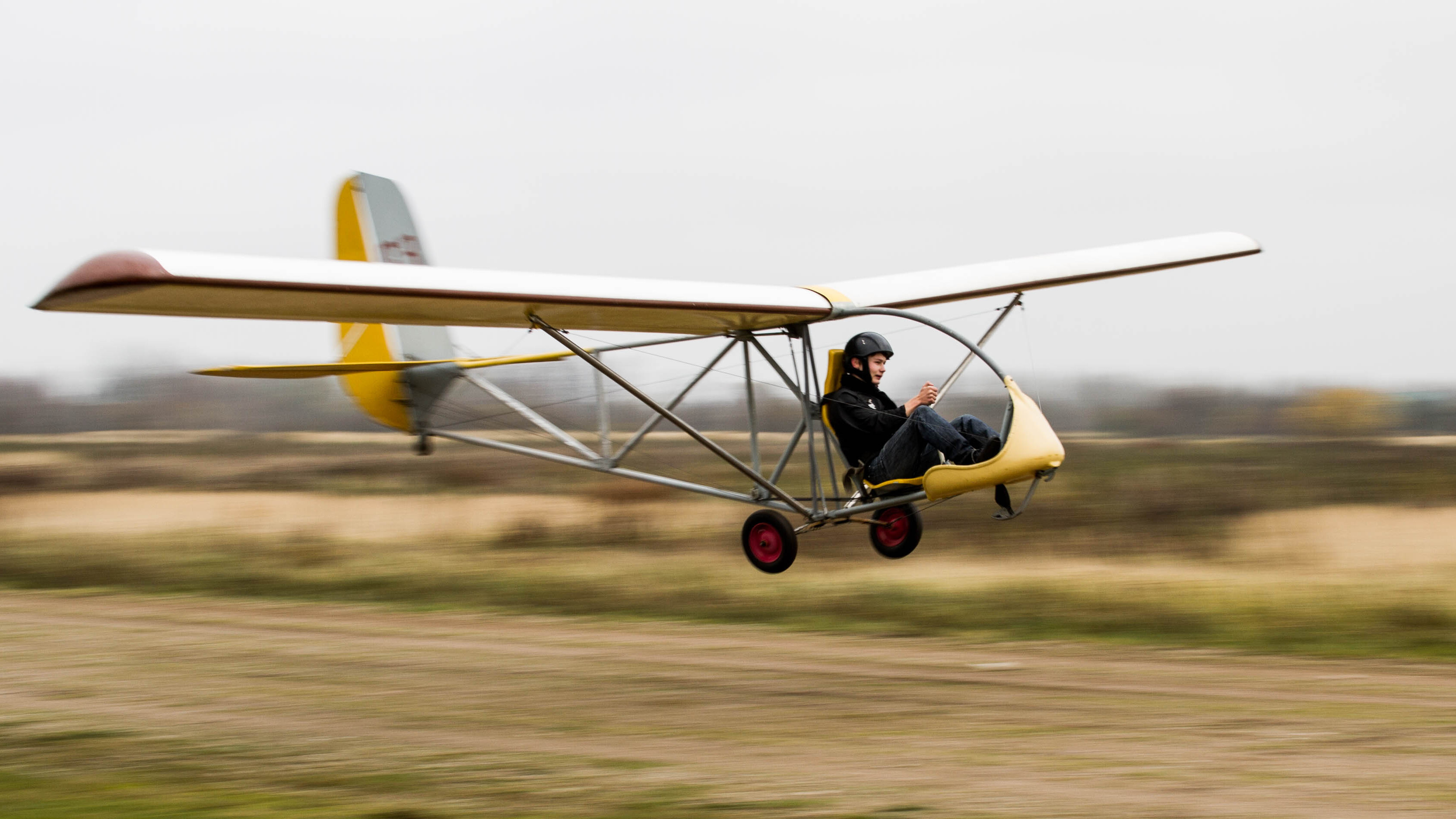 Training flight on glider LAK-16